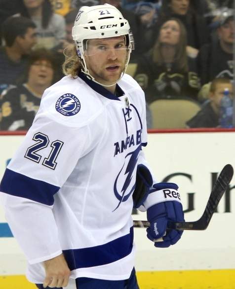 Tampa Bay Lightning defenseman Michael Kostka during a game against the Pittsburgh Penguins, March 22, 2014, at Consol Energy Center in Pittsburgh, PA.